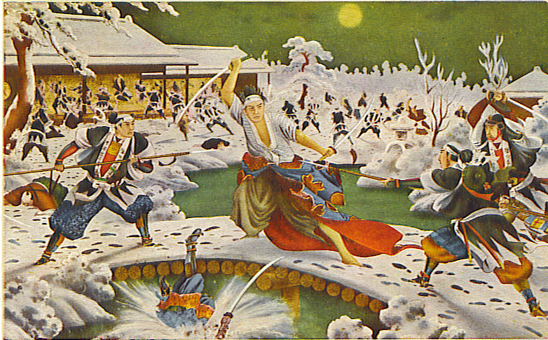 Postcard artwork: A scene from the Forty-seven Ronin: Shimizu Ikkaku fought bravely and died in the garden during the raid on Kira Kōzuke-no-suke Yoshinaka's mansion